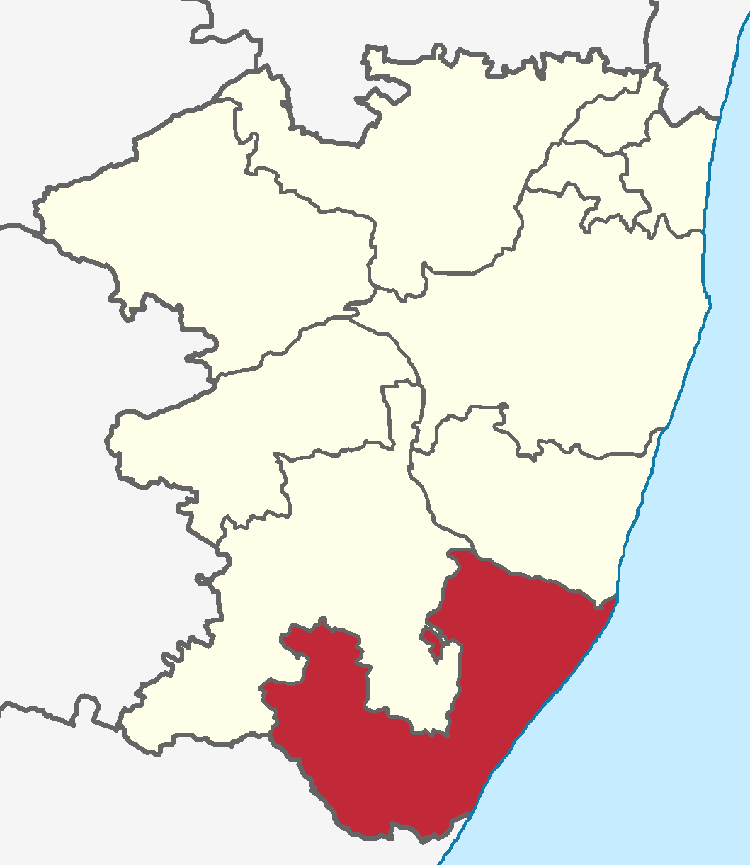 Location of Cheyyur taluk (sub-district) in Kanchipuram district, Tamil Nadu, India